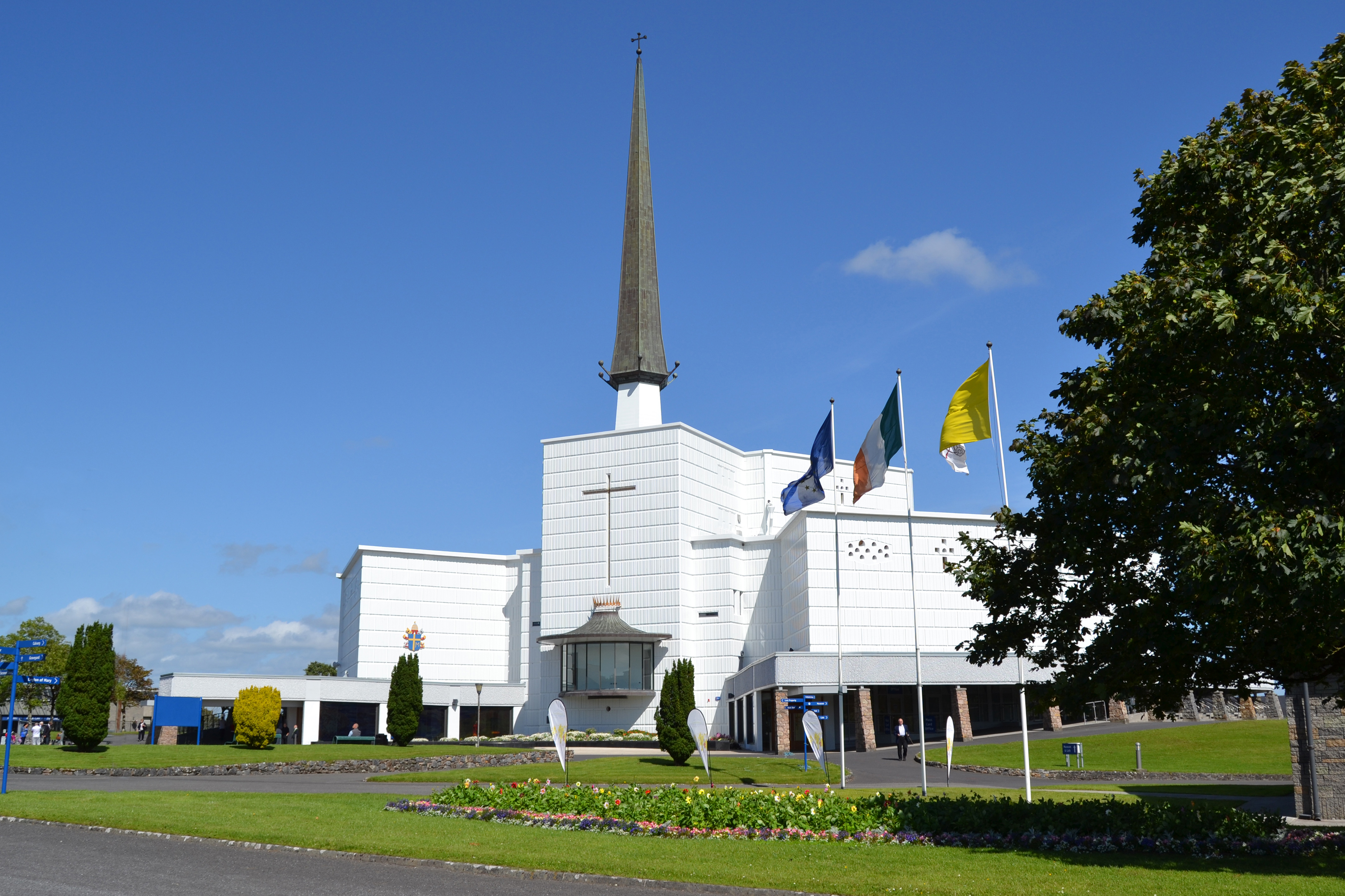 Knock Basilica, Knock Shrine, Co. Mayo